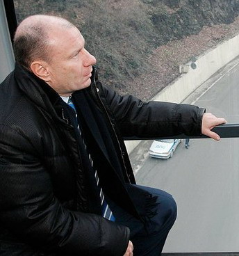 Vladimir Potanin, the President of the private association Interros, at the Rose Farm ski resort in Russia with President of the Russian Federation Dmitry Medvedev (to the right; not in this photograph).